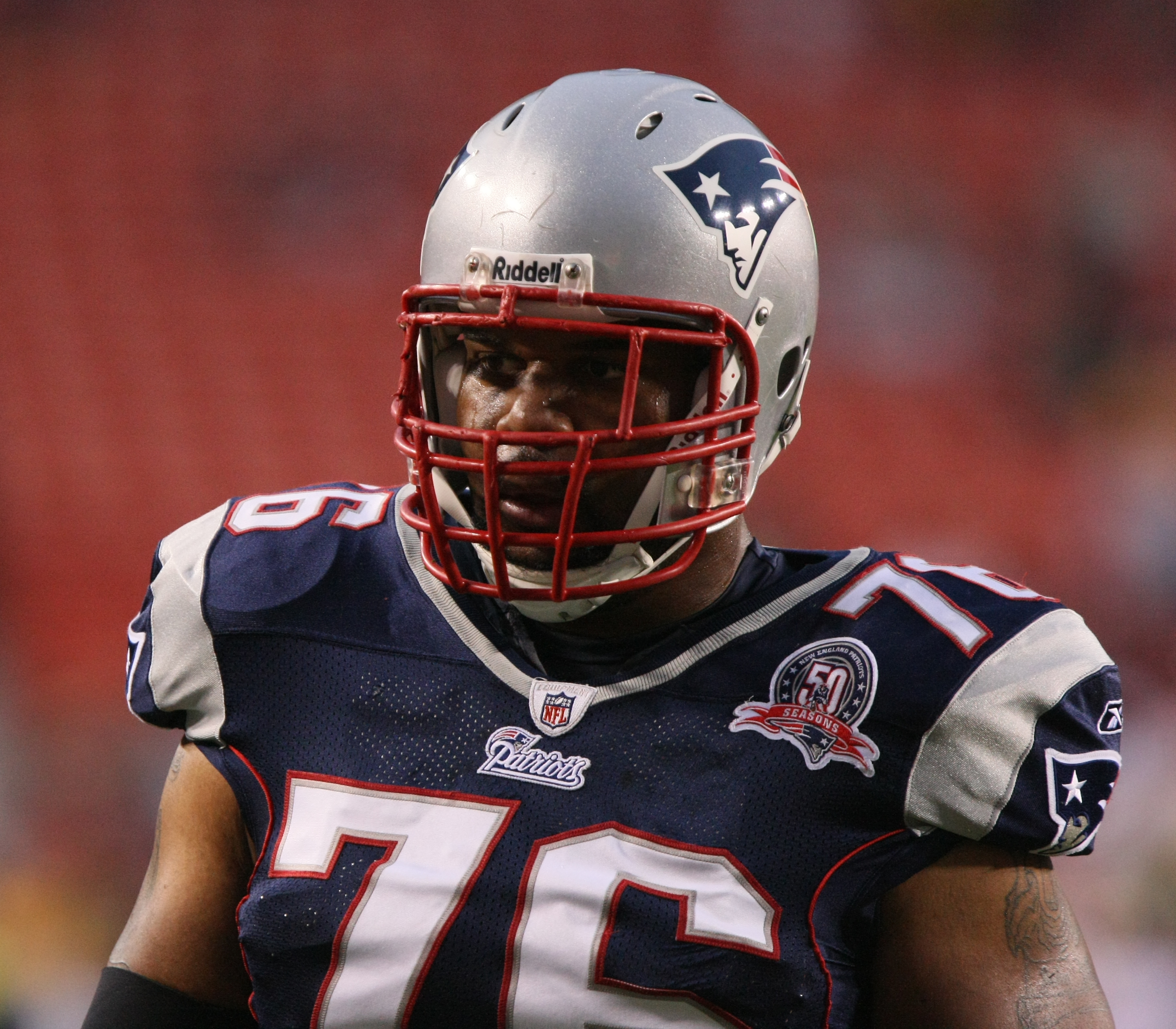 New England Patriots at Washington Redskins 08/28/09